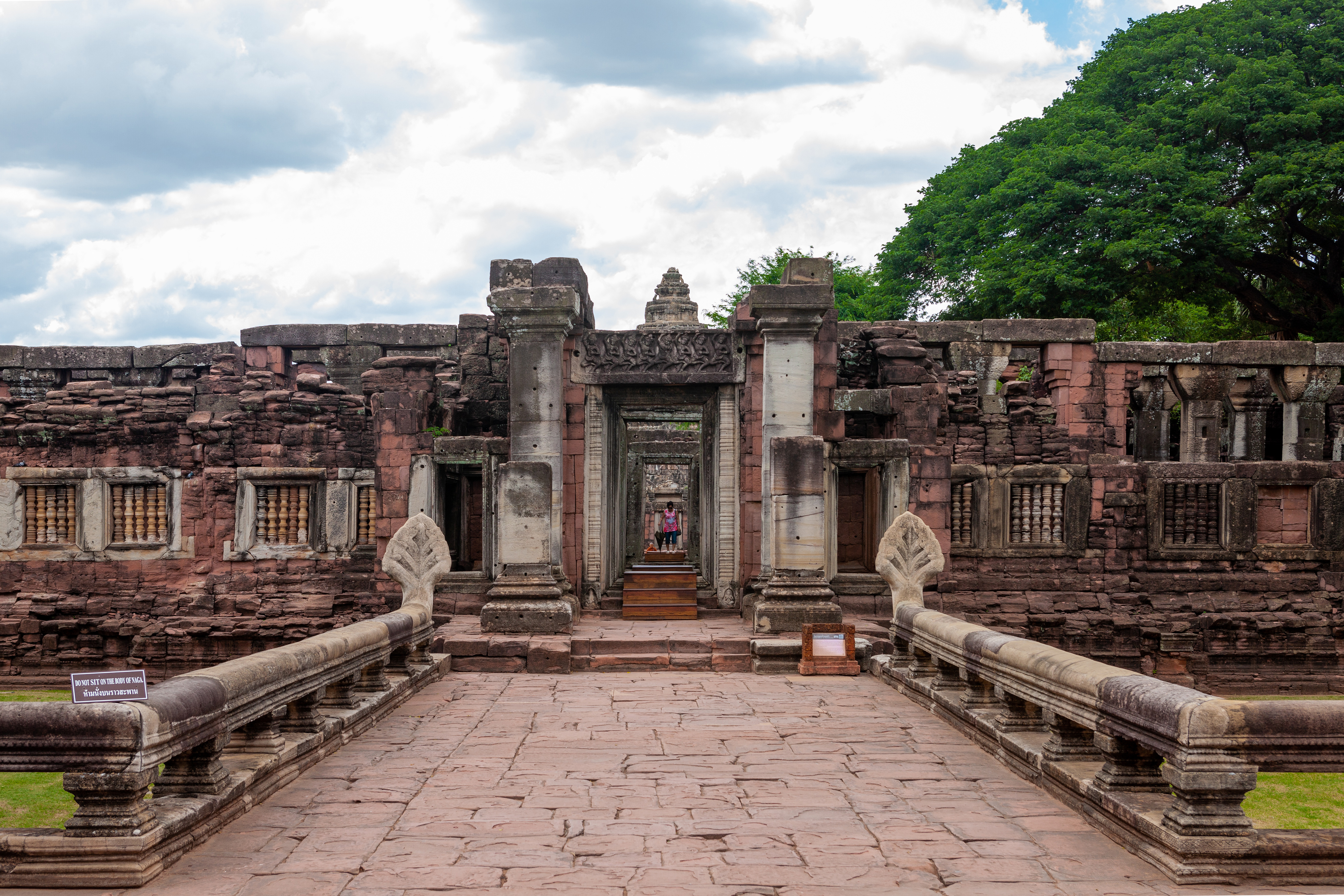 Phimai temple, in Phimai city, Northeast Thailand.